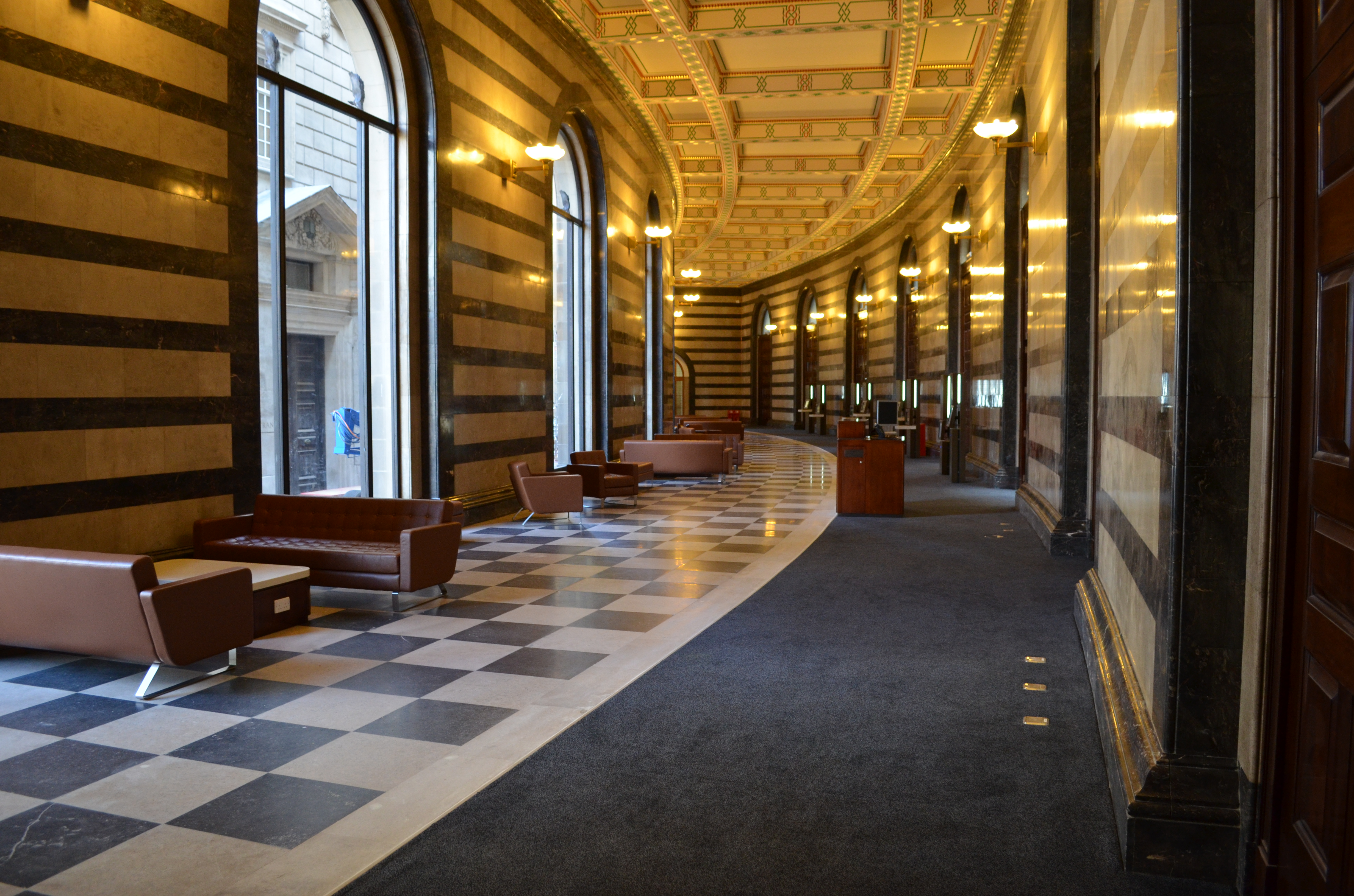 The Rates Hall and new Public Service Hub